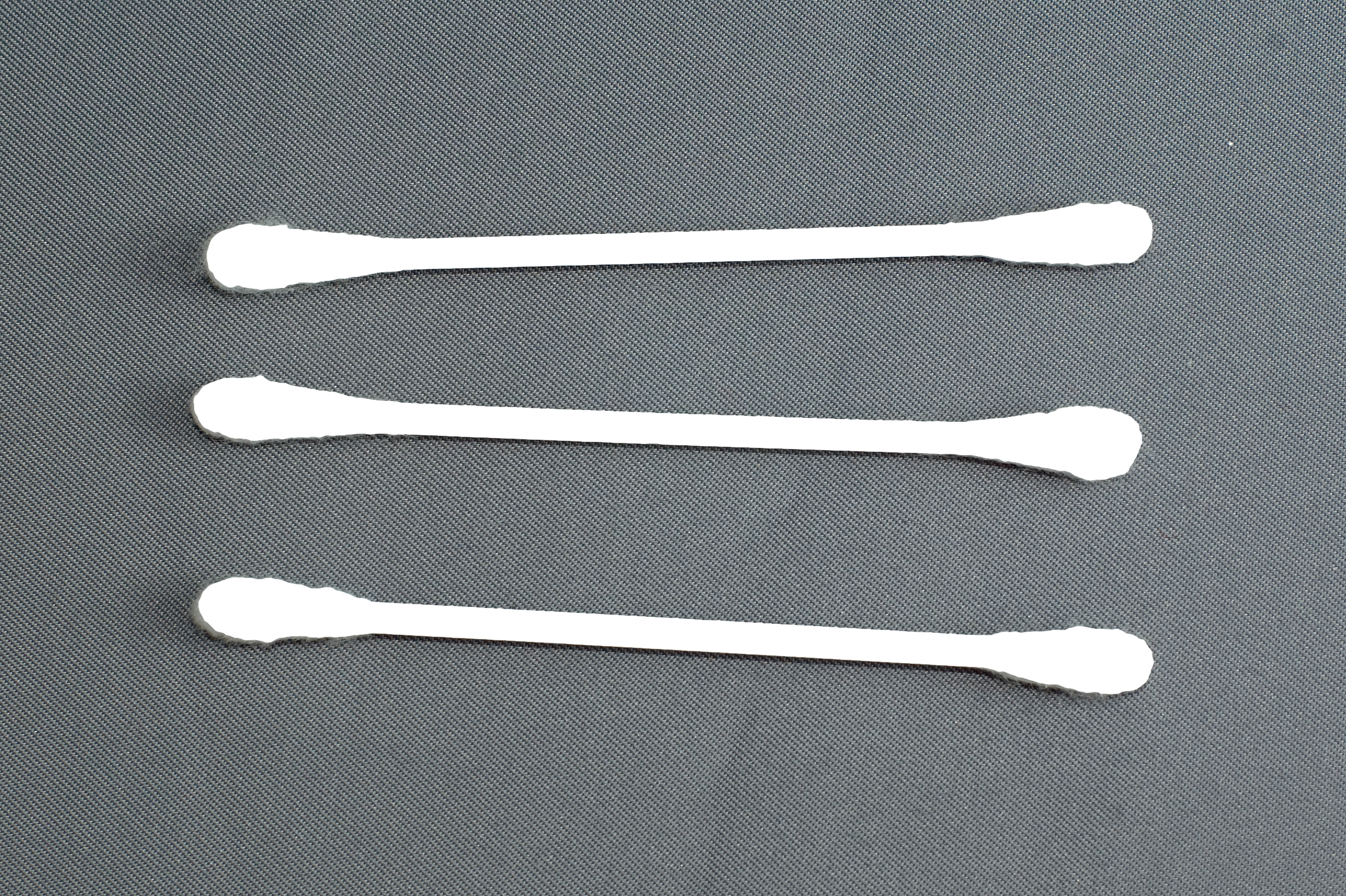 Cotton swabs